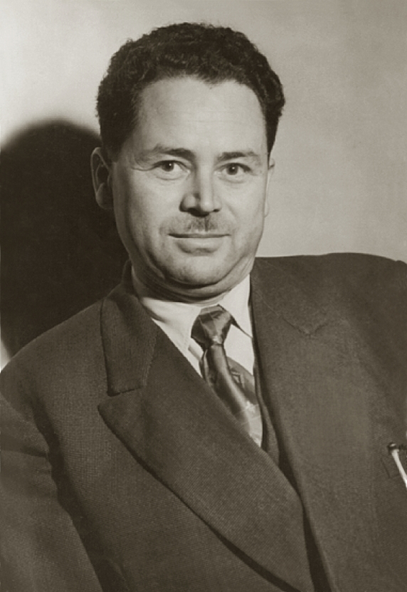 Farhat Hached (1914–1952) – national hero of Tunisia, General Secretary of the Tunisian General Labour Union (UGTT) and one of the leaders of the national independence movement